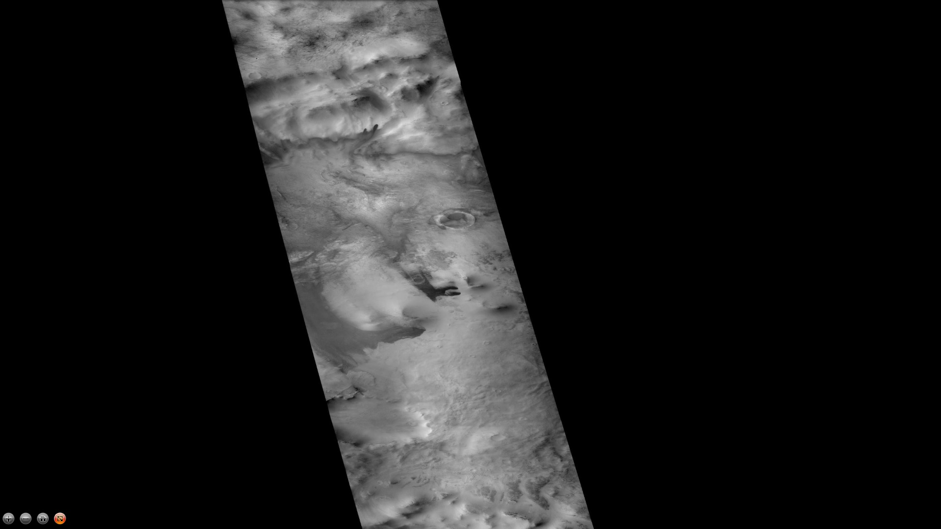 Maraldi Crater, as seen by ctx